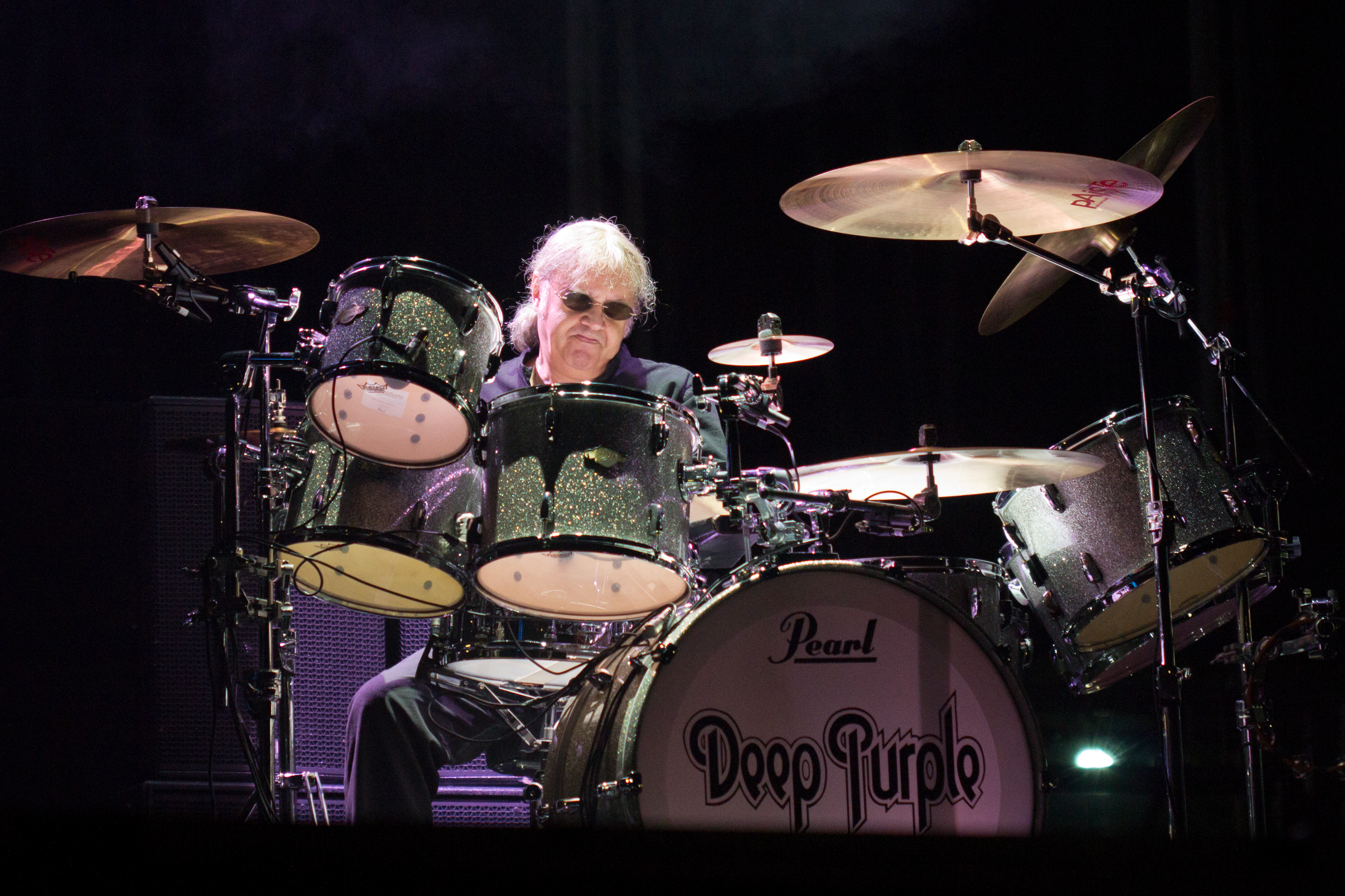 Deep Purple performing at Músicos en la naturaleza 2013 in Hoyos del Espino, Ávila, Spain.